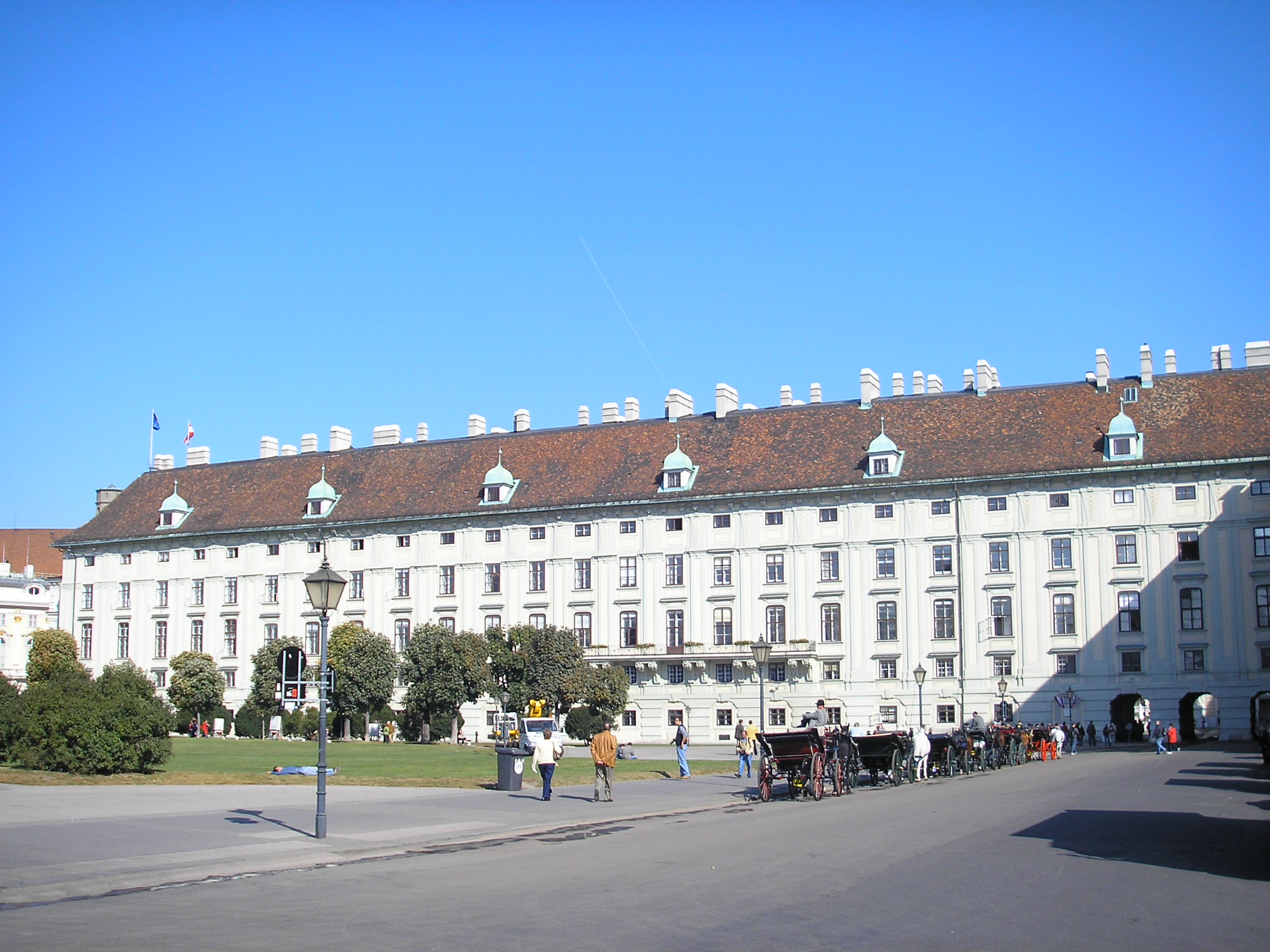 Image of the Leopoldinischer Trakt of the Hofburg Imperial Palace in Vienna, from the north